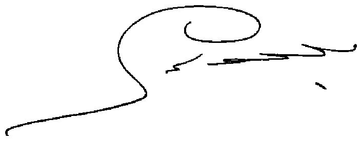 Signature of Ramzan Kadyrov.